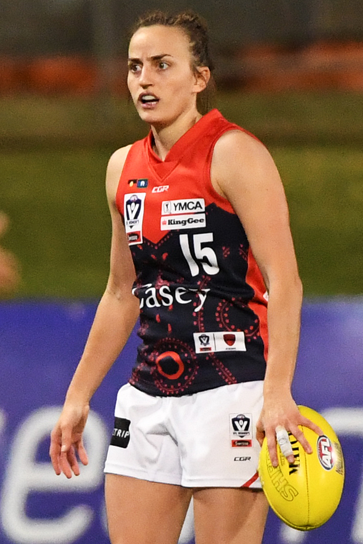 Chantel Emonson of Casey during the 2019 VFLW round 11 match between NT Thunder and Casey at Traeger Park on Saturday, 20 July 2019 in Alice Springs, Northern Territory.